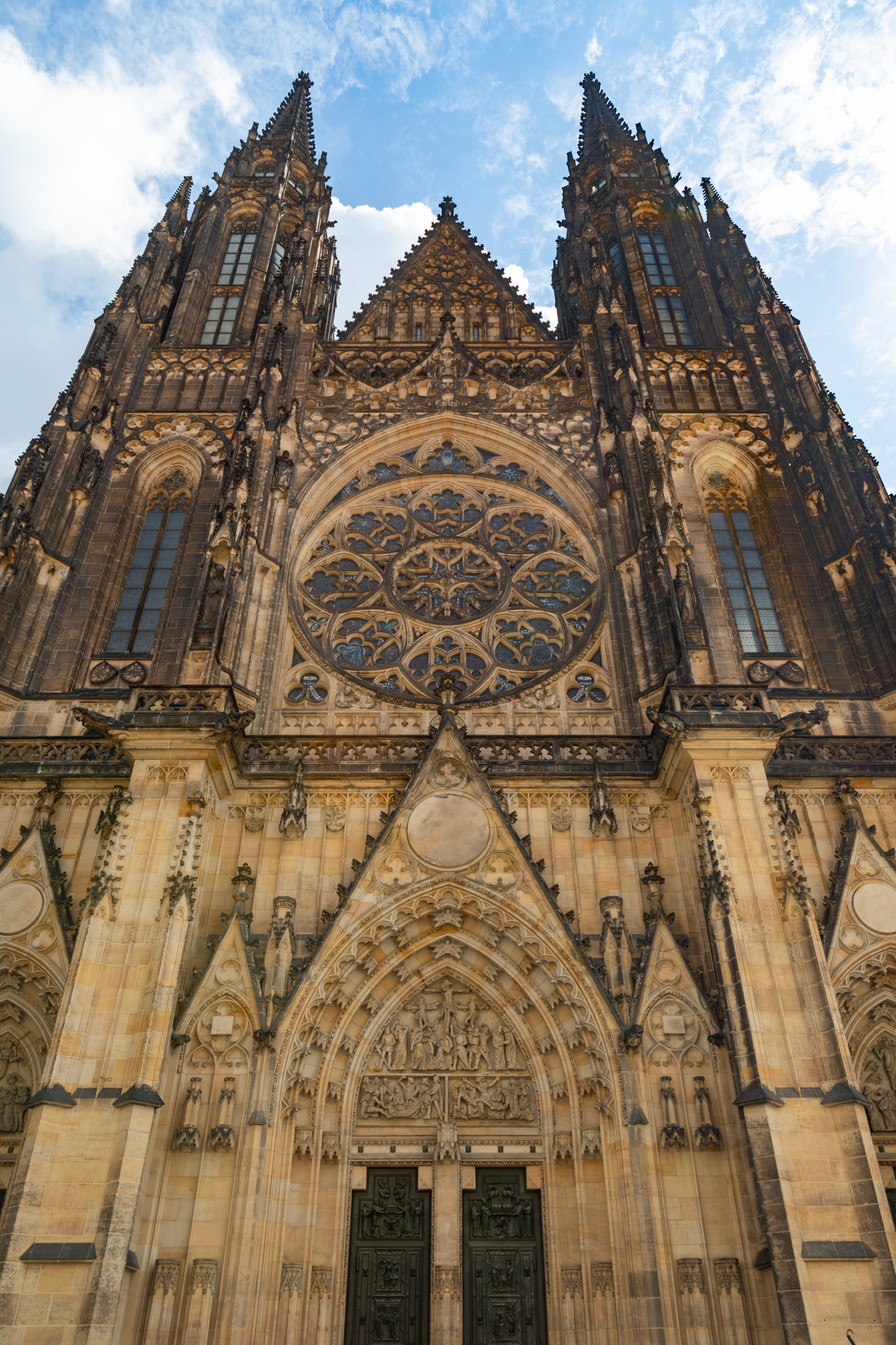 St. Vitus Cathedral at the Prague Castle, Prague, Czech Republic